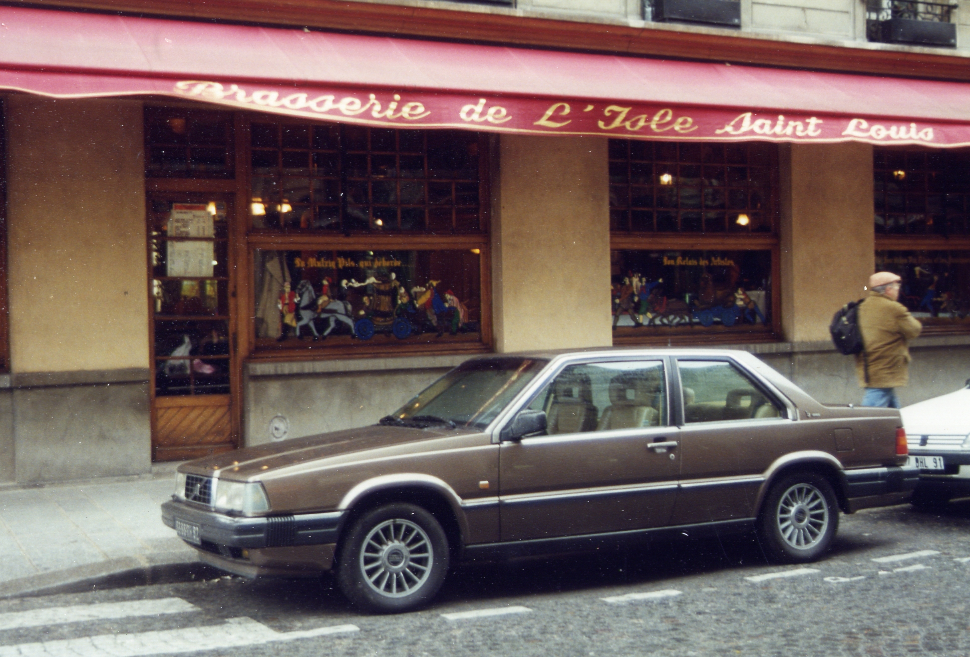 Volvo 780 Bertone in Paris, France.